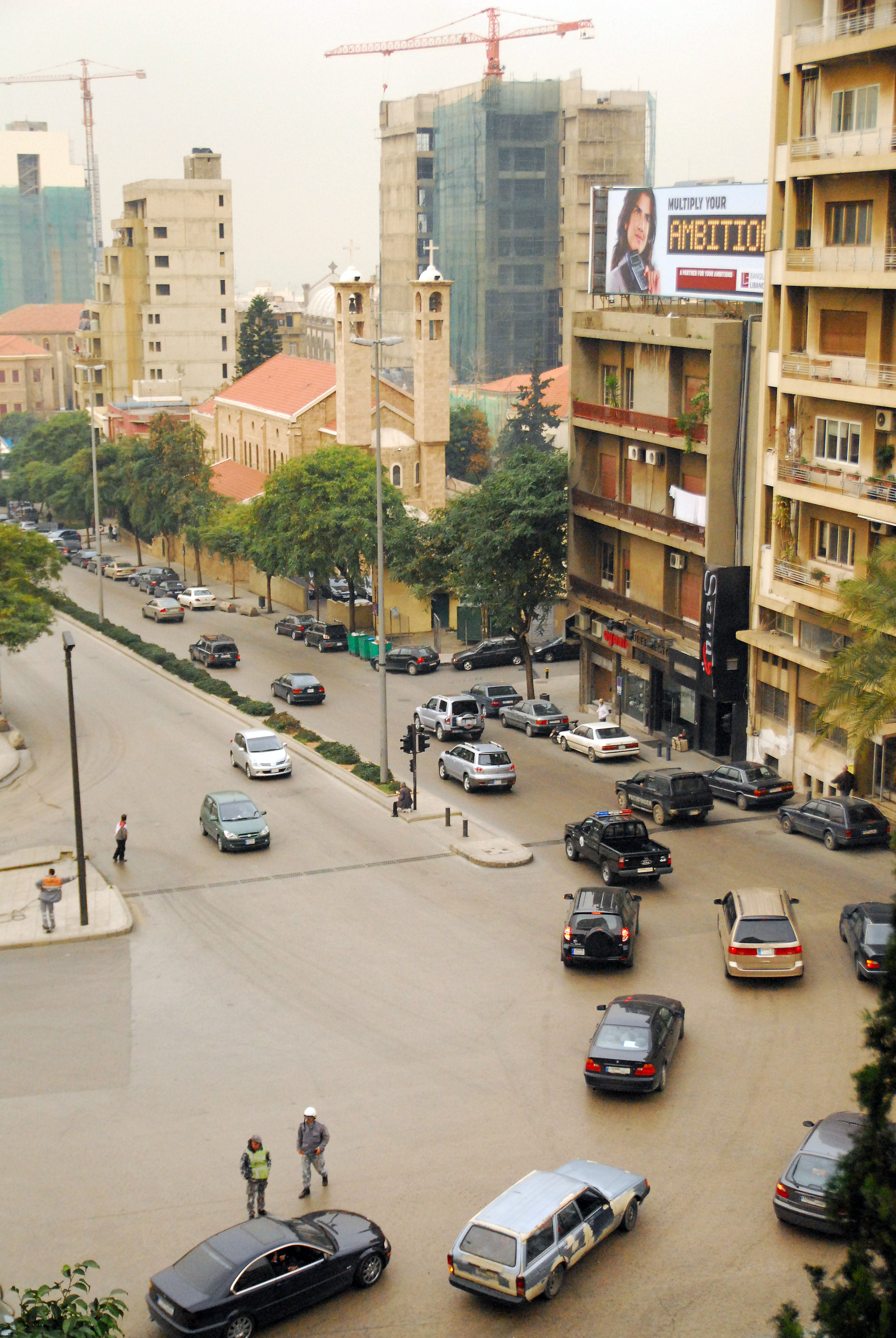 Another rainy Beirut day